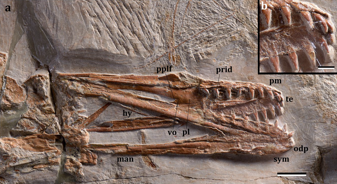 Mimodactylus libanensis gen. et sp. nov. (a) Skull and lower jaw. (b) Detail of the dentition. Scale bars, a: 10 mm, b: 1 mm. Abbreviations. hy: ceratobranchial I of the hyoid apparatus; man: mandible; odp: odontoid process; pl: palatine; pm: premaxilla; pplf: postpalatine fenestra; prid: palatal ridge; sym: mandibular symphysis; te: teeth; vo: vomer. Arrows point to the cingulum at the base of the teeth.